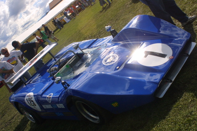 Matich SR4 sports racing car at Speed on Tweed 2008.